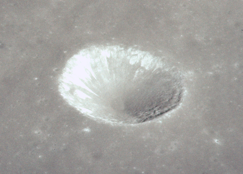 Oblique view of crater Clerke on the Moon.